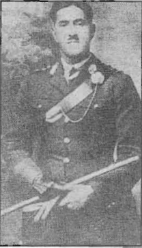 Salah al-Din al-Sabbagh iraqi leader